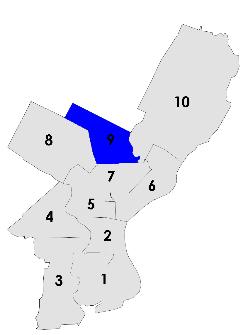 Philadelphia city council districts, highlighting the special election in the 9th district in 1958